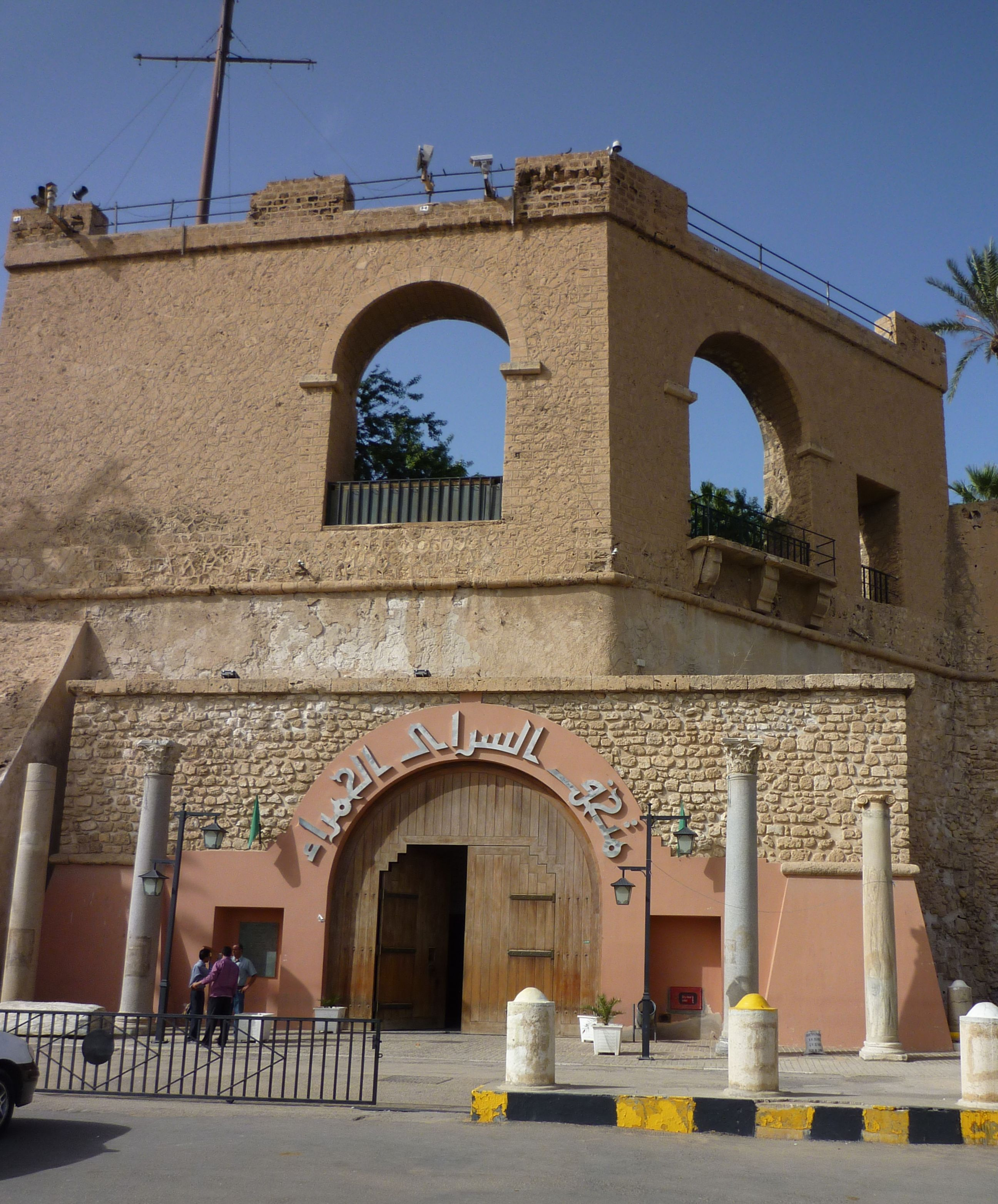 Red-Tripoli Castle, at harbor in Tripoli, Libya. Red Castle Museum.